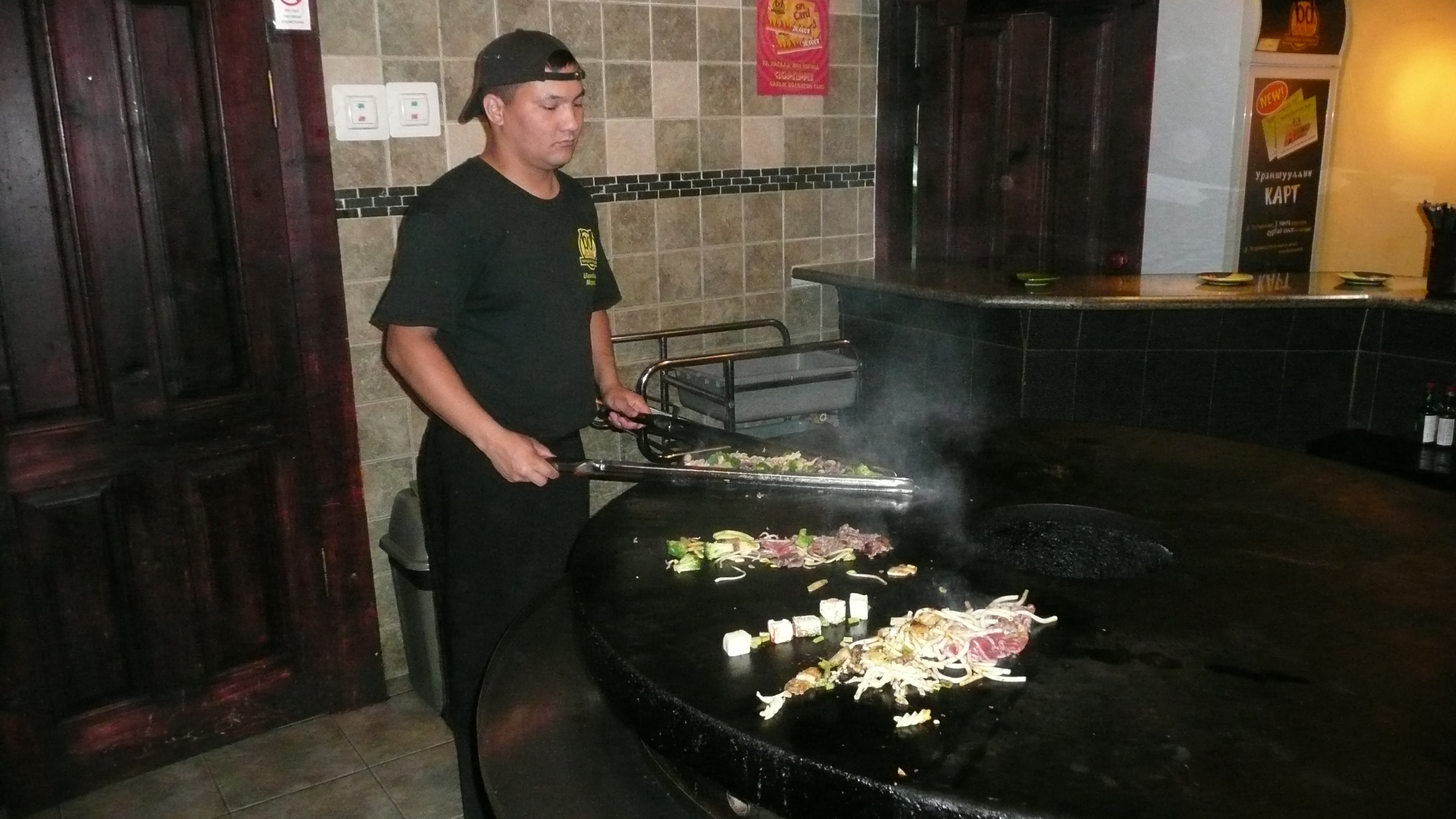 BD's Mongolian Barbeque Restaurant in Ulan Bator